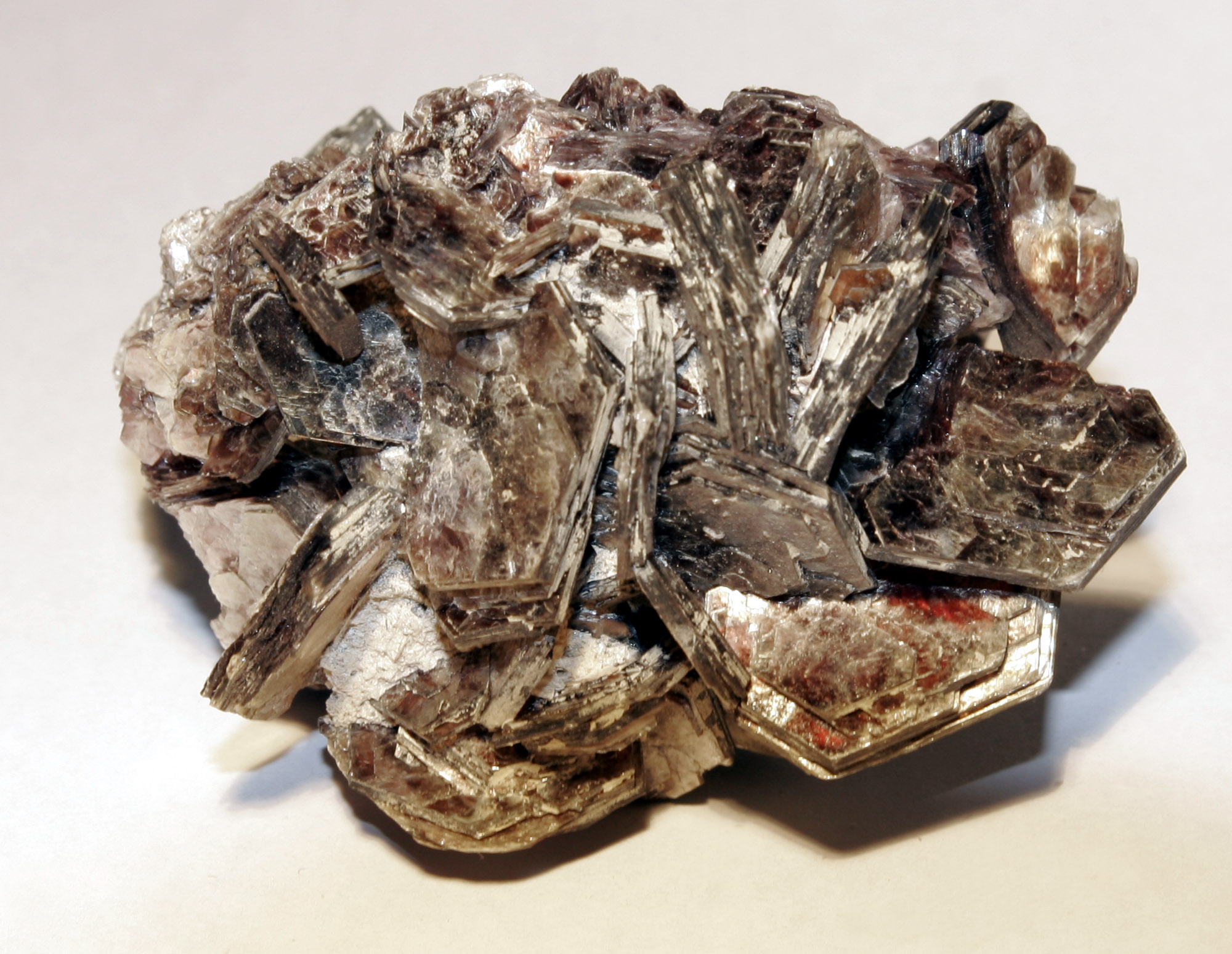 Mica mineral.